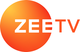 Zee TV channel from India (official logo in 2018)